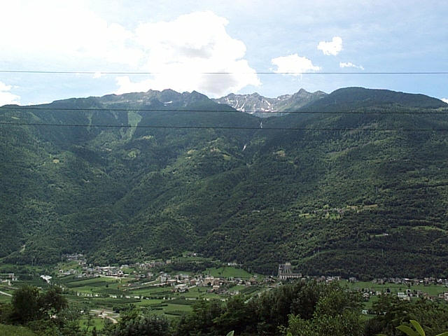 A view of Valtellina, from Tresivio, a few kilometres from Sondrio.